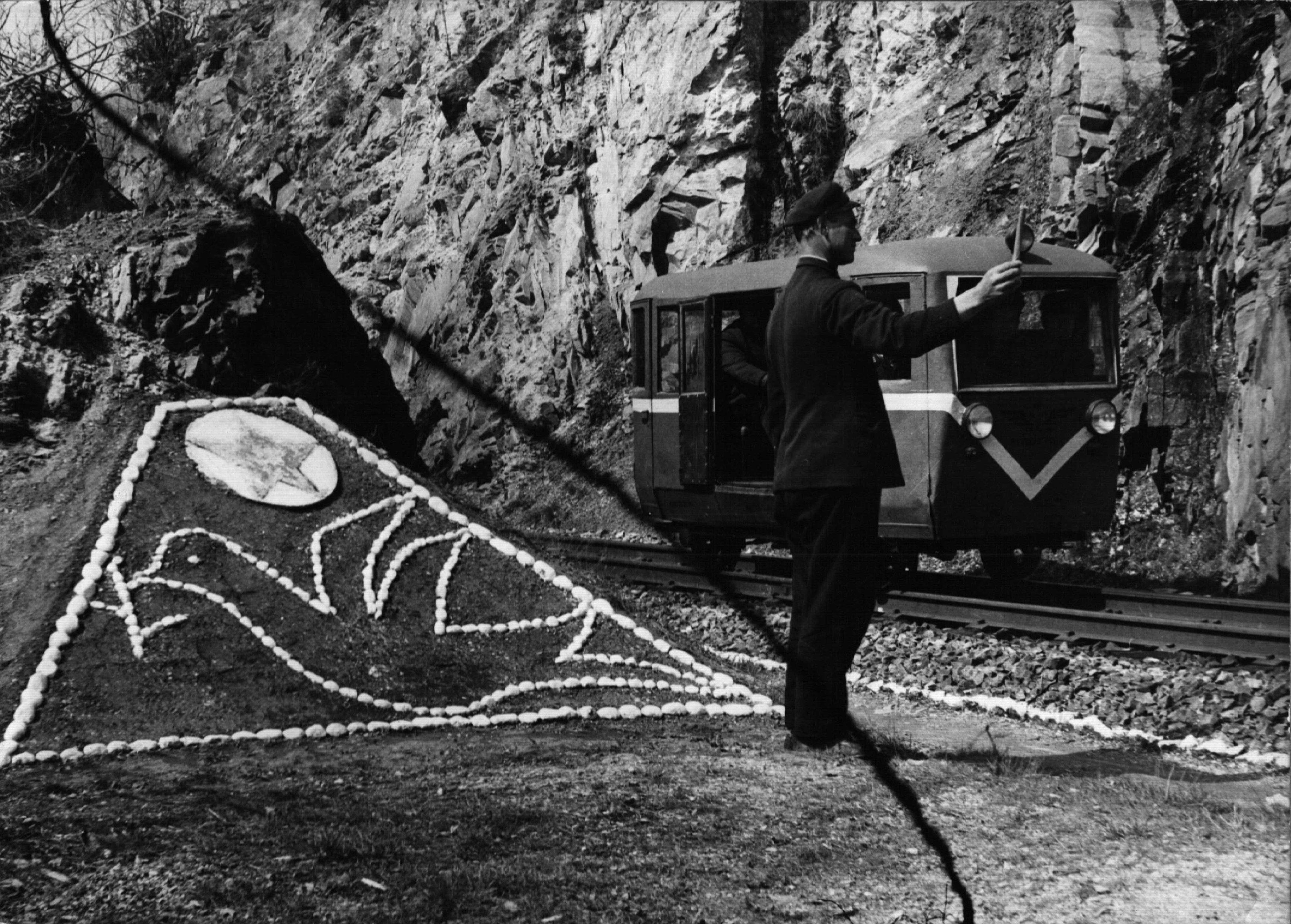 Trackwalker, Septemvri-Dobrinishte narrow gauge line